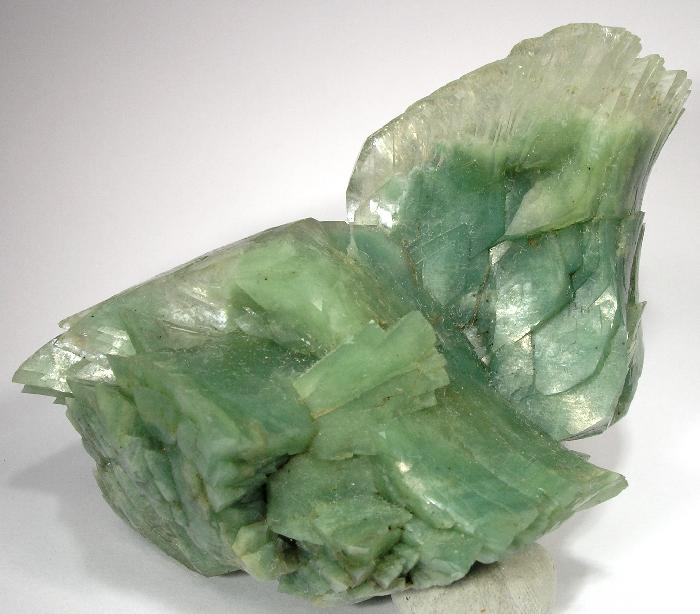 Celadonite, Heulandite-Ca Locality: Ahmadnagar District (Ahmednagar District; Ahmed Nagar District), Maharashtra, India (Locality at ) Size: small cabinet, 7.2 x 4.5 x 4.2 cm Heulandite included by Celadonite This elegant, pristine, complete-all-around specimen is the best example I have seen for its size. The quality is superb, featuring a waxy lustre and great curvature and elegance of form all around. It is green throughout except for the very tip of one "frond", which is a stark contrasting white.